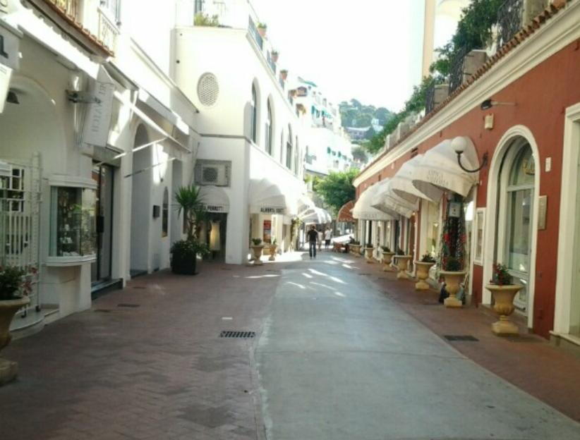 via camerelle